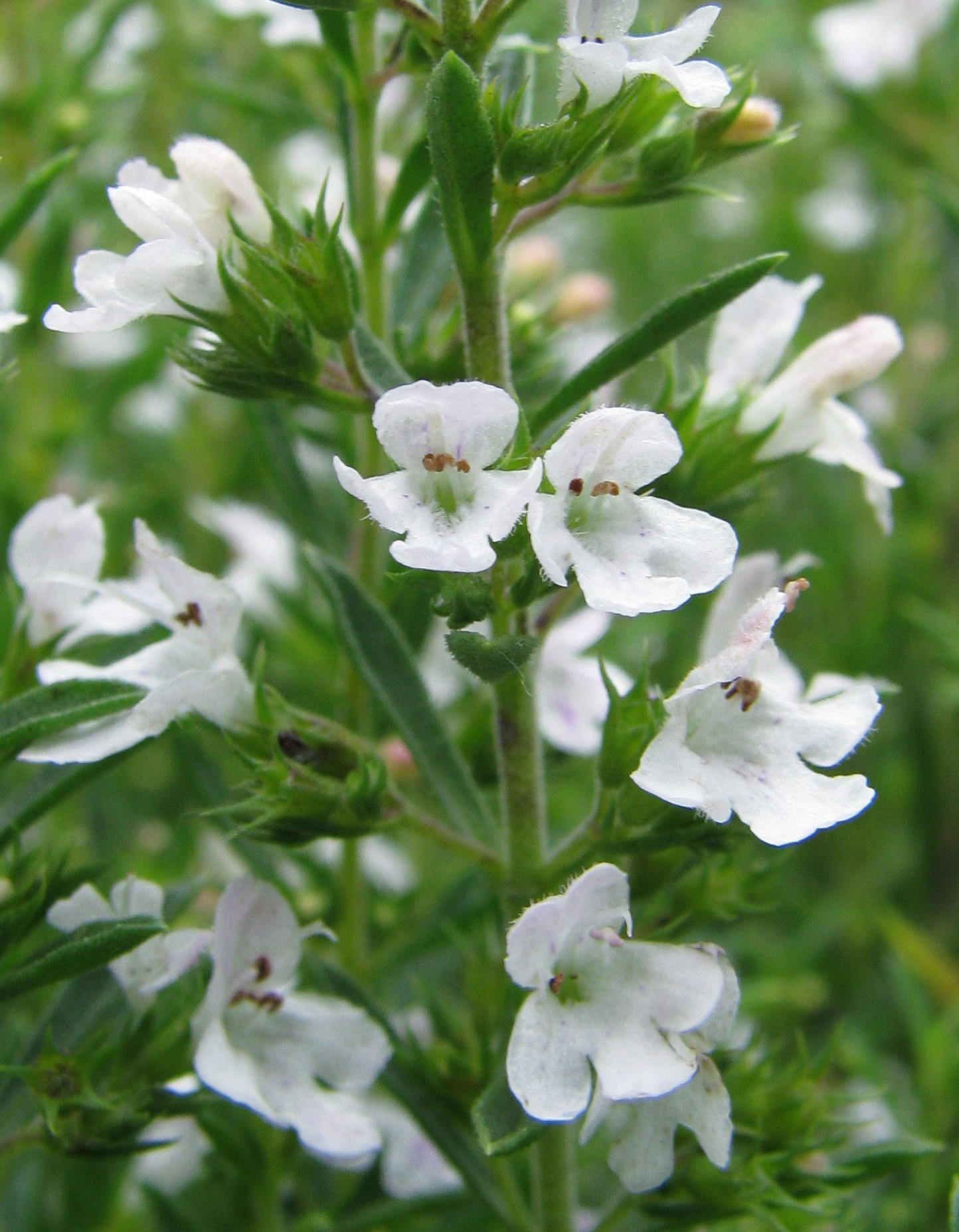 Winter savory (Satureja montana) white flowers, plants cultivated in Wrocław University Botanical Garden, Poland.